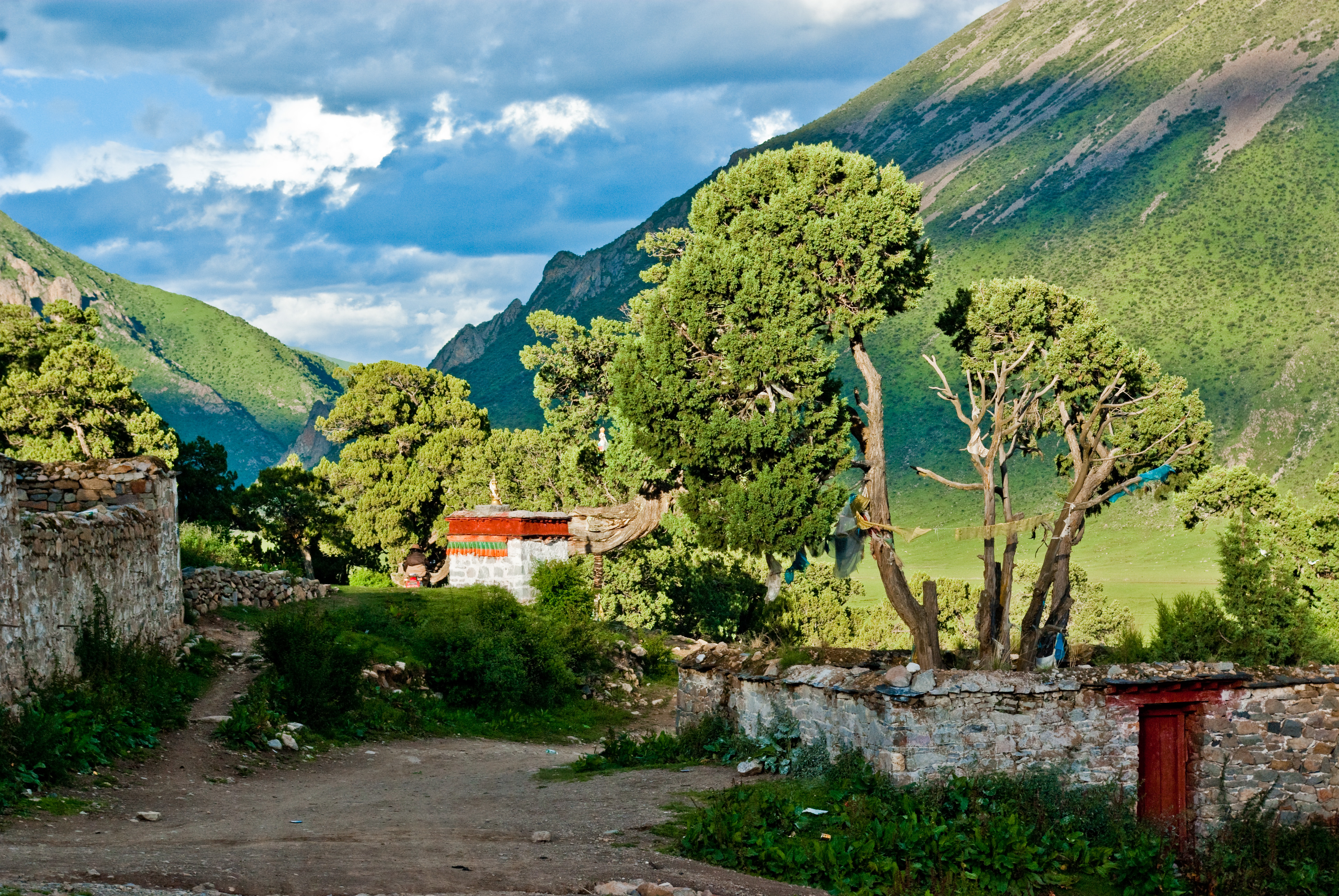 Reting monastery